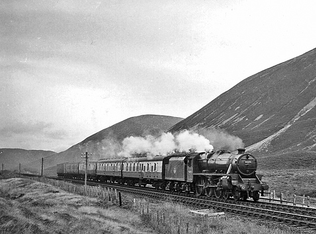 Train near Drumochter Summit. View SE from near - but exactly at - the 1,464 ft. Summit on the ex-Highland Perth - Inverness main line. The train is the 12.17 Perth to Inverness stopping train, which would have taken 2½ hours to get this far: very 'miles from anywhere' scenery back in 1957.